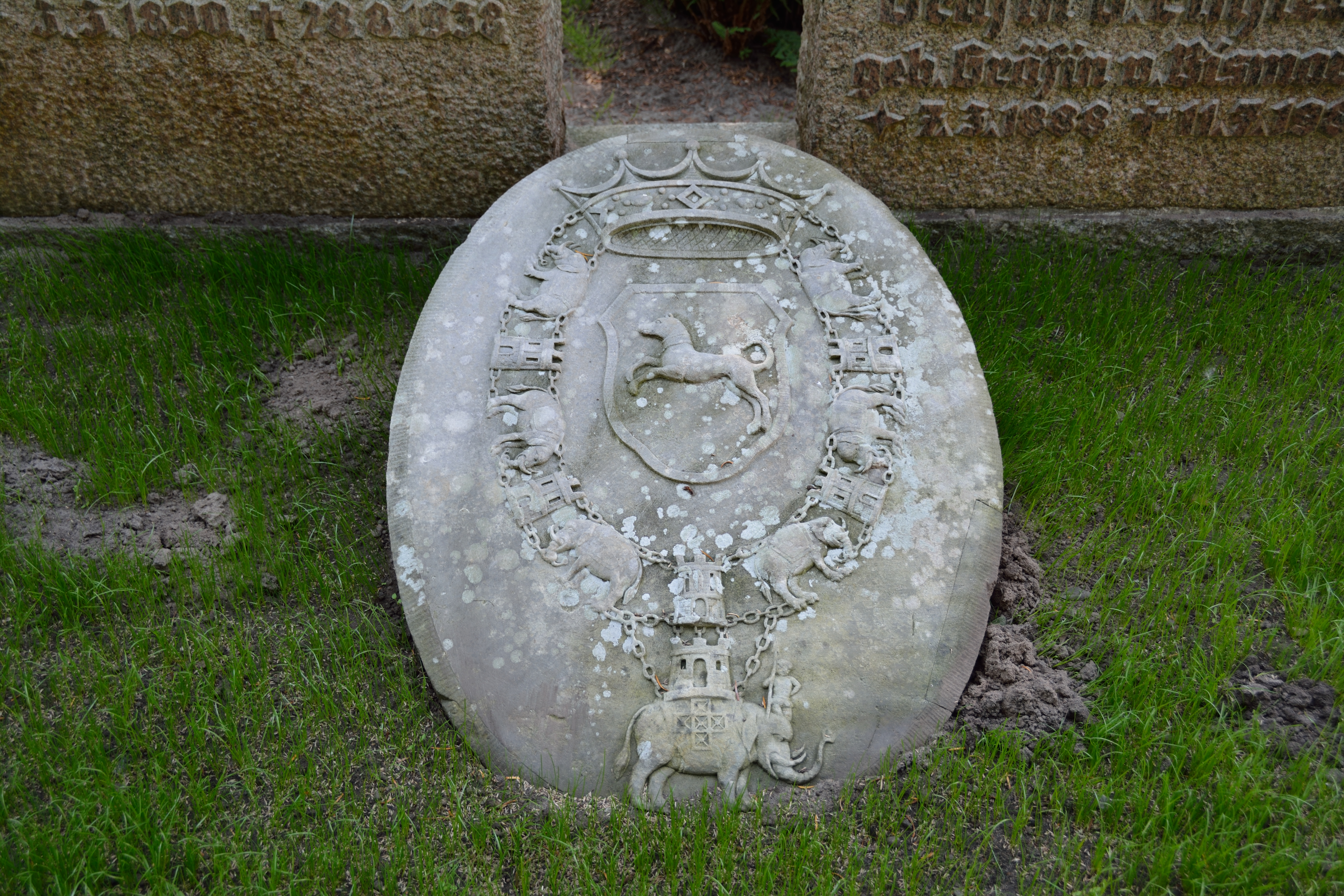 The tomb of Blome family. An additional stone shows the elephant Medal with the family crest at the center. Cemetery in Heiligenstedten.